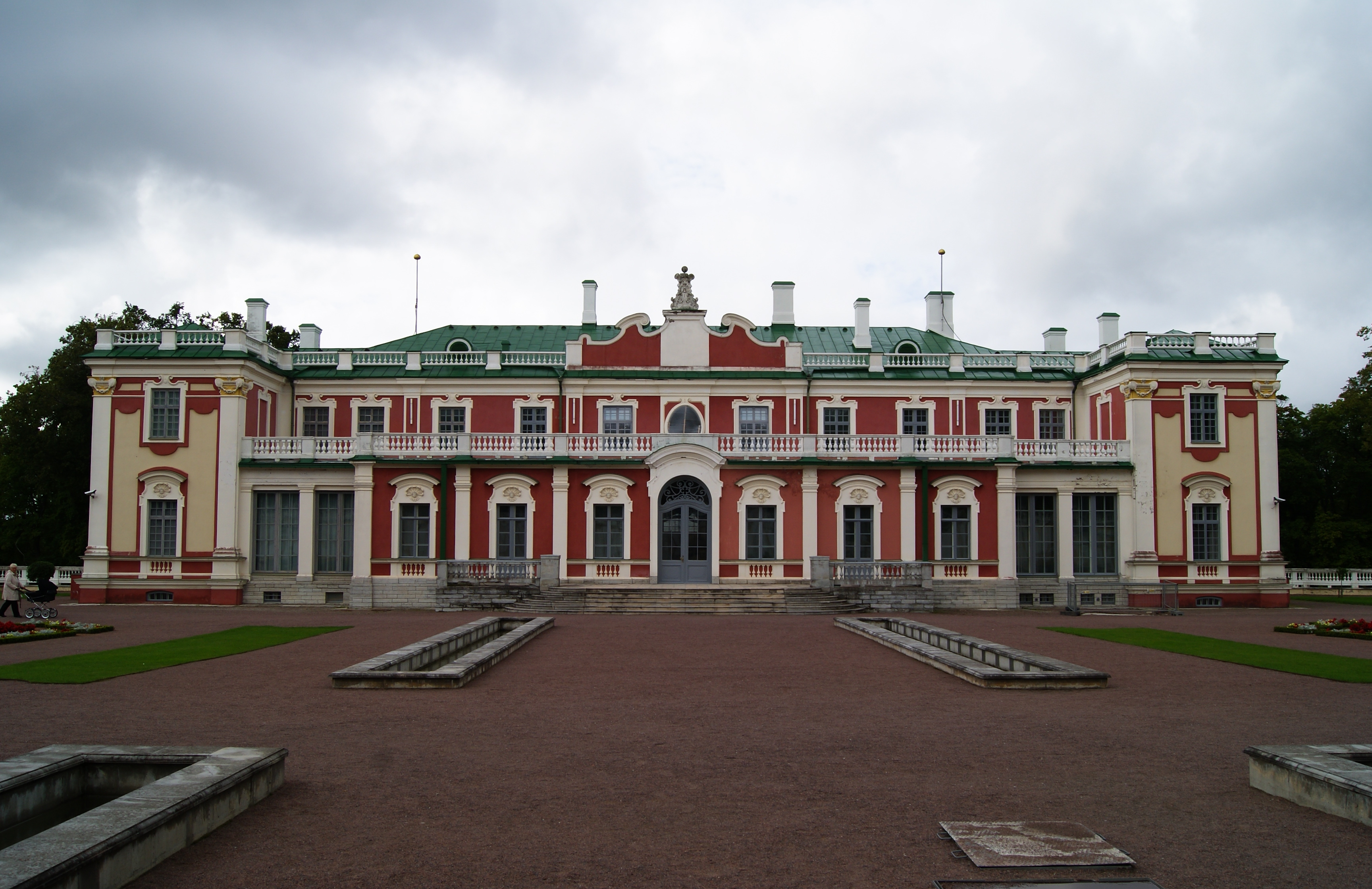 Kadriorg Palace